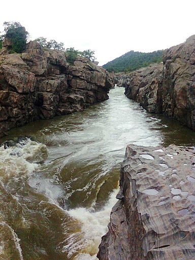 Mekedatu Falls